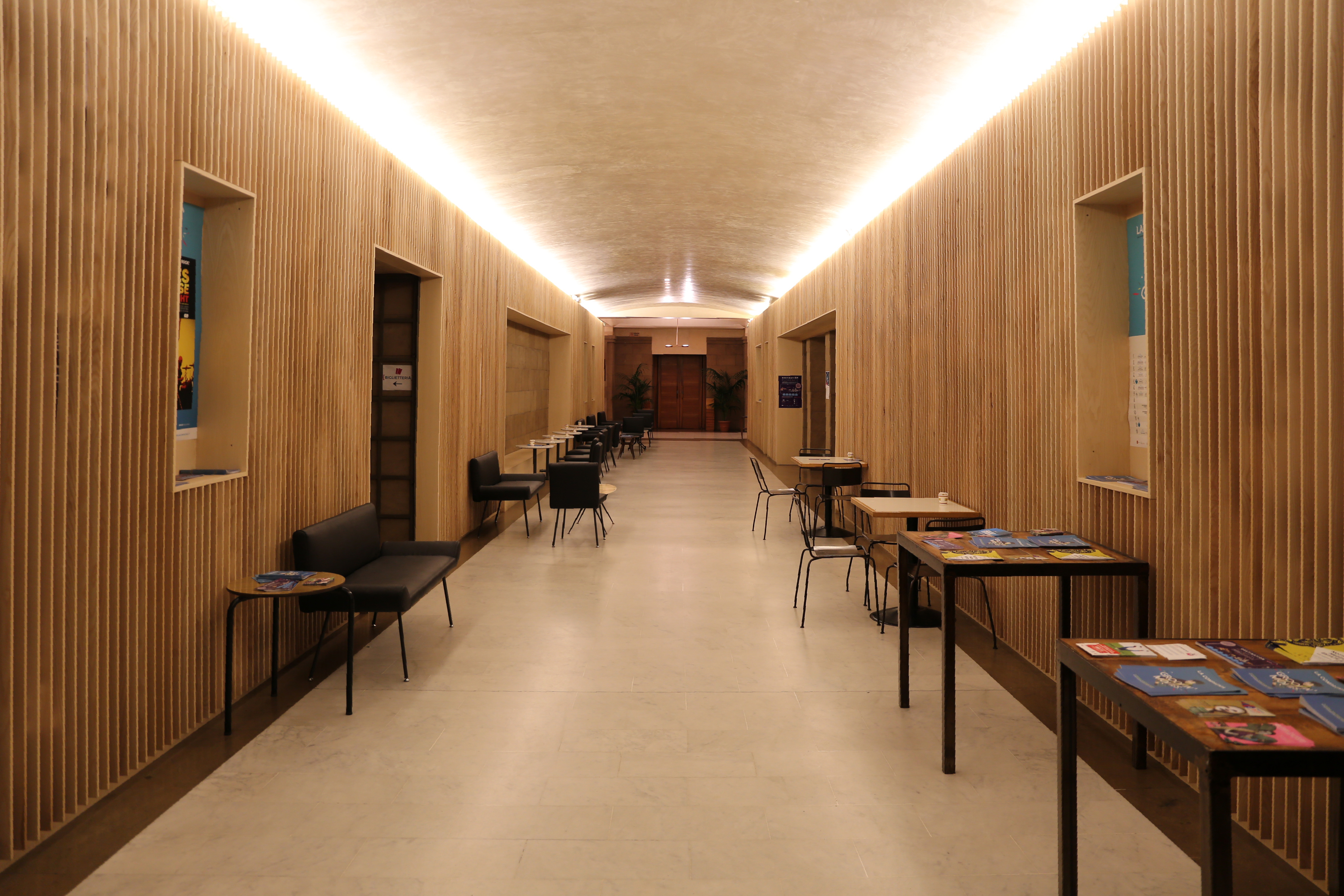 Teatro della Compagnia